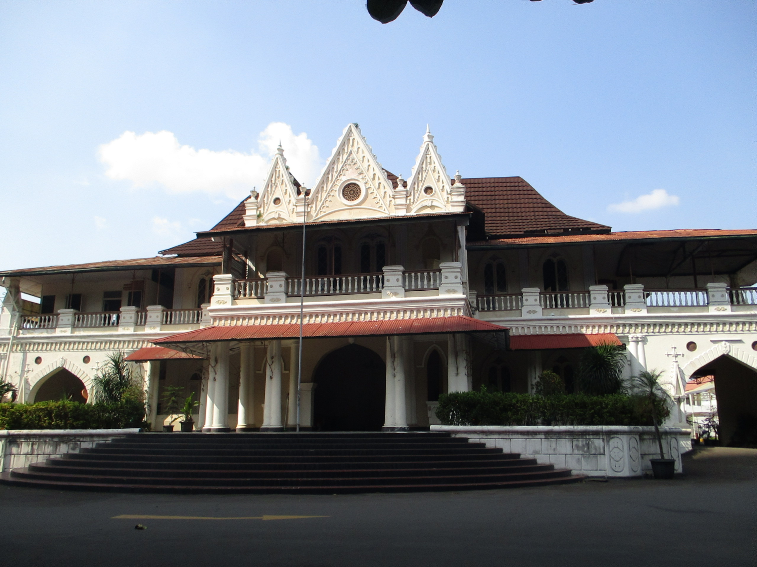 Cikini Hospital's main building, originally a residence of famous painter in Dutch Indies era, Raden Saleh.